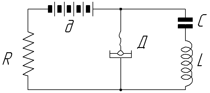 The "Crystodyne" zinc oxide negative resistance electronic oscillator circuit invented by Russian scientist Oleg Losev around 1923. Experimenting with the first crude point-contact semiconductor diodes, called crystal detectors, Losev found that a diode made of a zincite (zinc oxide) crystal touched lightly with a steel wire when forward biased had negative resistance and would oscillate in this circuit. The resistor and battery apply a forward bias of 4 to 30 volts. The capacitor and inductor form a tuned circuit. The negative resistance of the diode cancelled the positive resistance in the tuned circuit, exciting sinusoidal oscillations. This circuit could oscillate at frequencies up to a few megahertz.